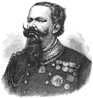 Engraving of Victor Emmanuel II of Italy